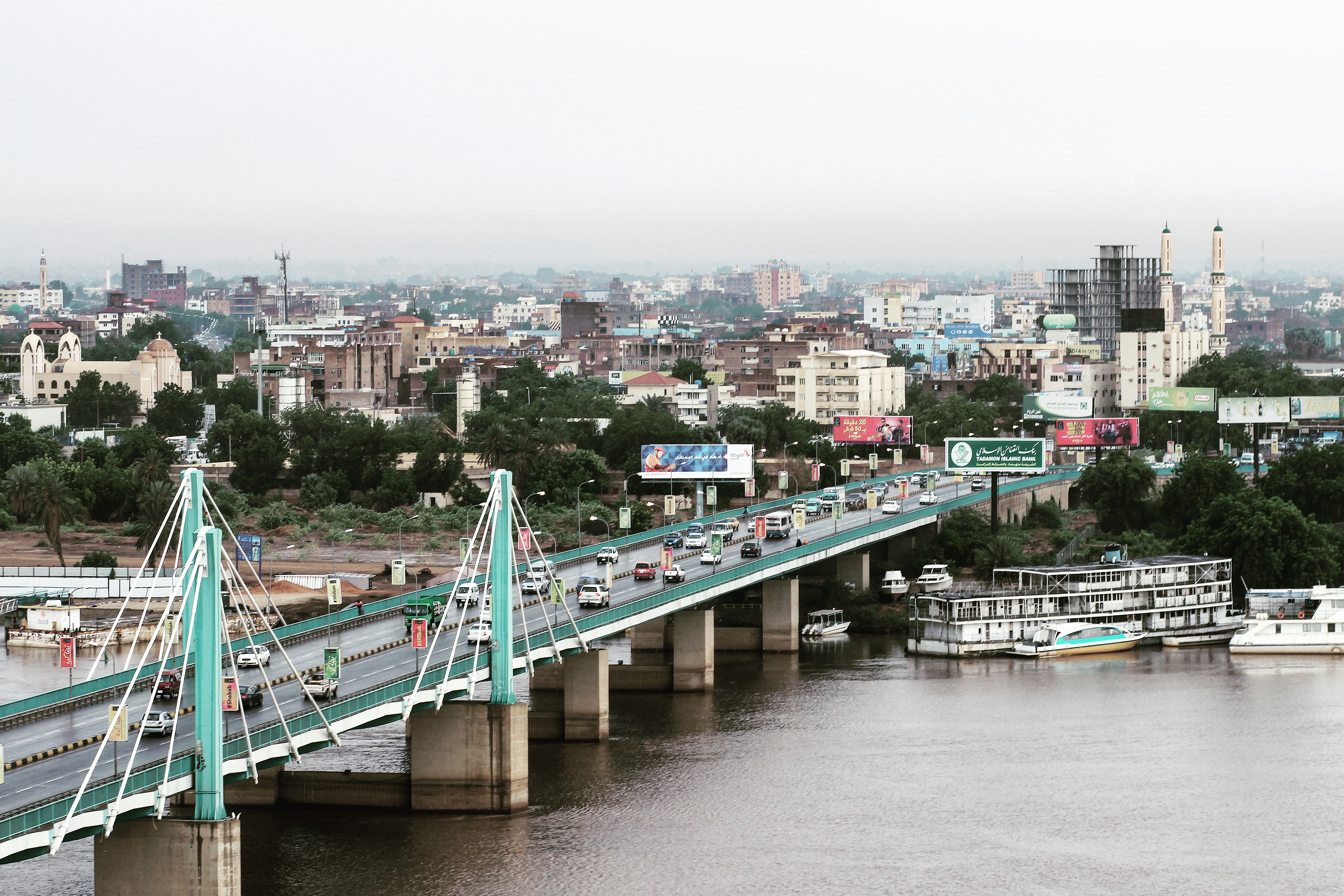 Opened in 2007, the Mac Nimir Bridge links Khartoum, Sudan with Khartoum North across the Blue Nile river. It is named after a famous leader of the Jaaliyeen tribe in Northern Sudan who infamously burned the son of Muhammad Ali Pasha, Ismail, and his cortege when they invaded Sudan from Egypt. This is an image with the theme "Africa on the Move or Transport" from: Sudan